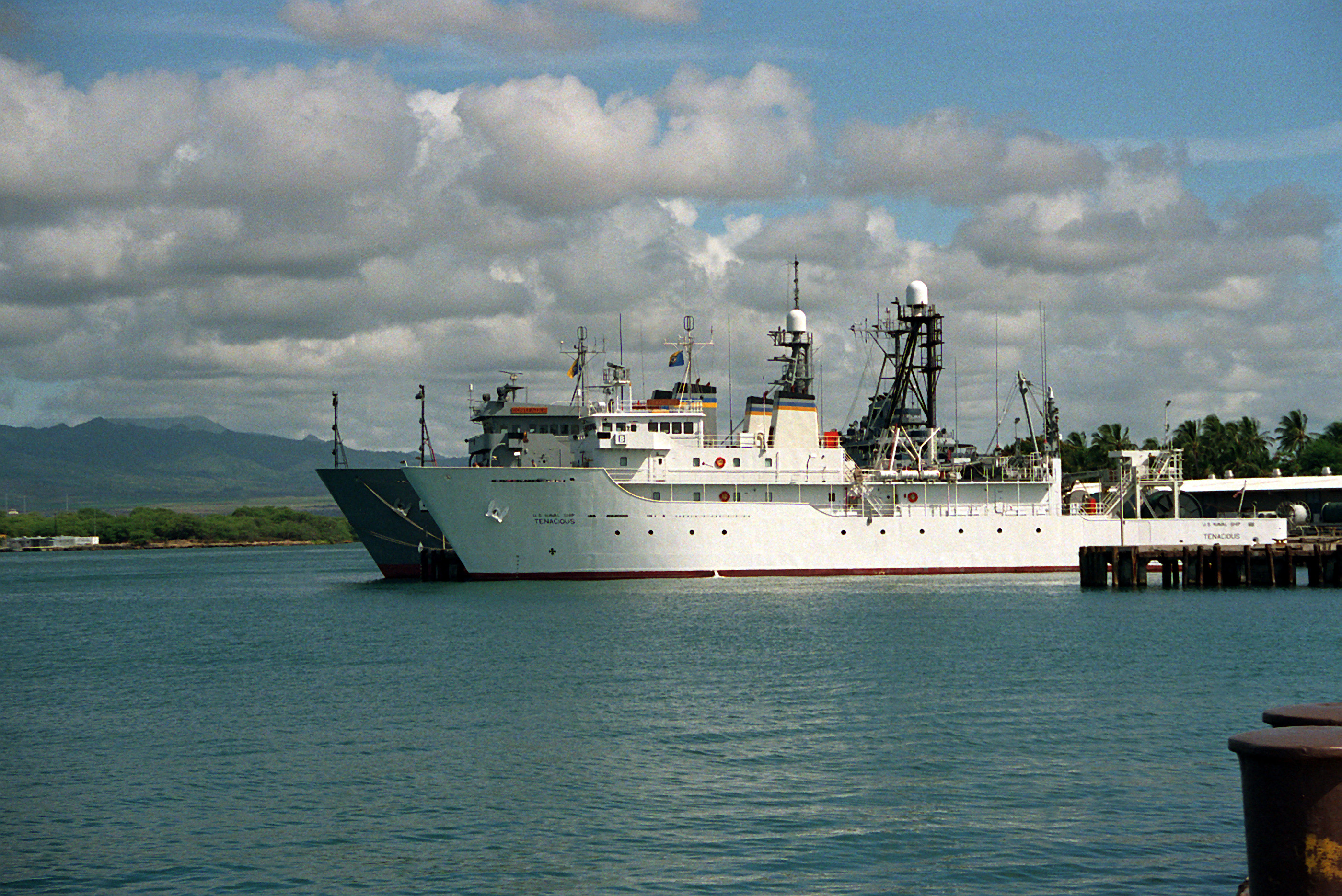 The ocean surveillance ship USNS TENACIOUS (T-AGOS-17), foreground, and USNS CONTENDER (T-AGOS-2) lie tied up at Bishop's Point. Location: NAVAL STATION, PEARL HARBOR, HAWAII (HI) UNITED STATES OF AMERICA (USA)